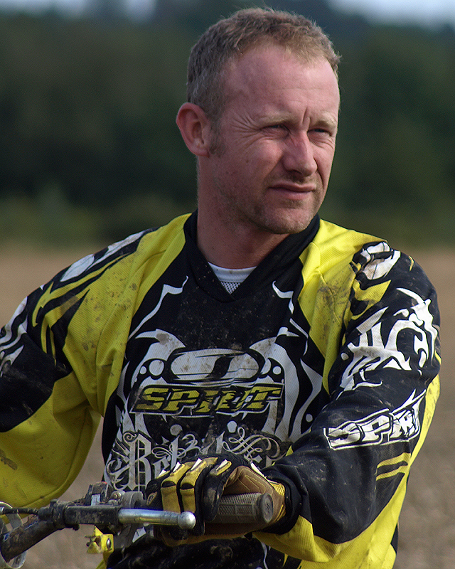 Four-time World Enduro Champion Paul Edmondson at the fourth and final round of the 2008 GBXC.